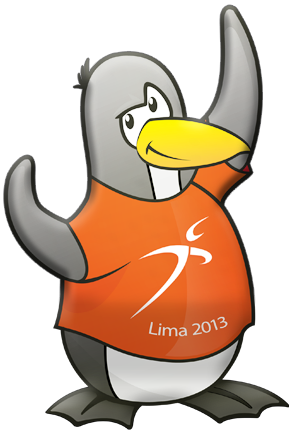 Mascota Oficial de los I Juegos Suramericanos de la Juventud Lima 2013